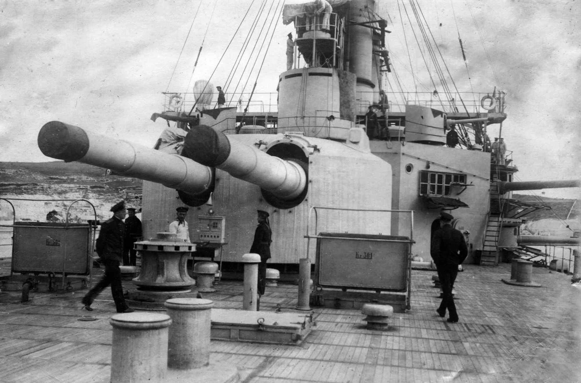 The Imperial Russian battleship Ioan Zlatoust.